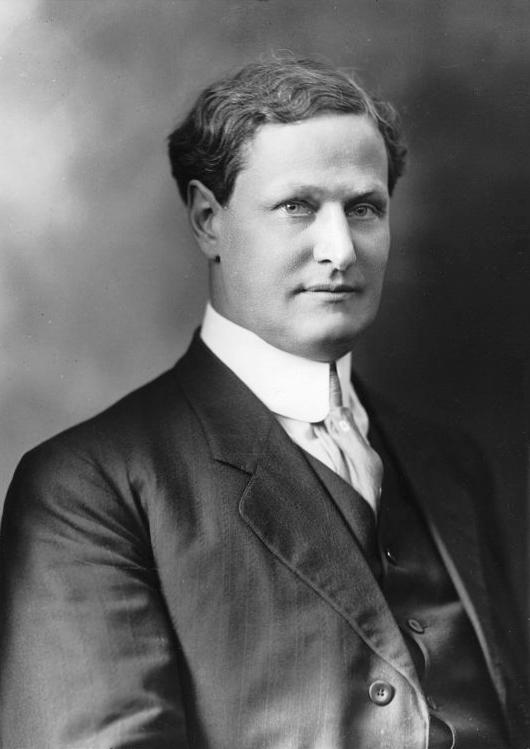 Portrait of William Sutherland Maxwell, architect, Montreal, Quebec, Canada, 1913